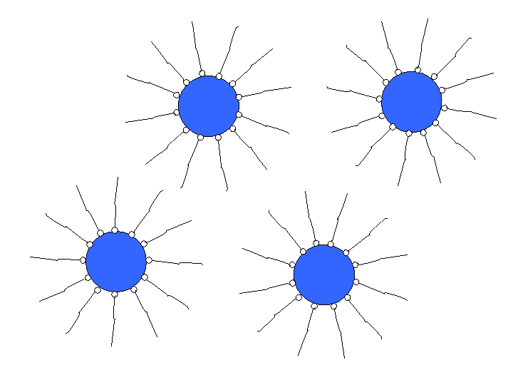 Visualisation of steric stabilization by dispersing agents